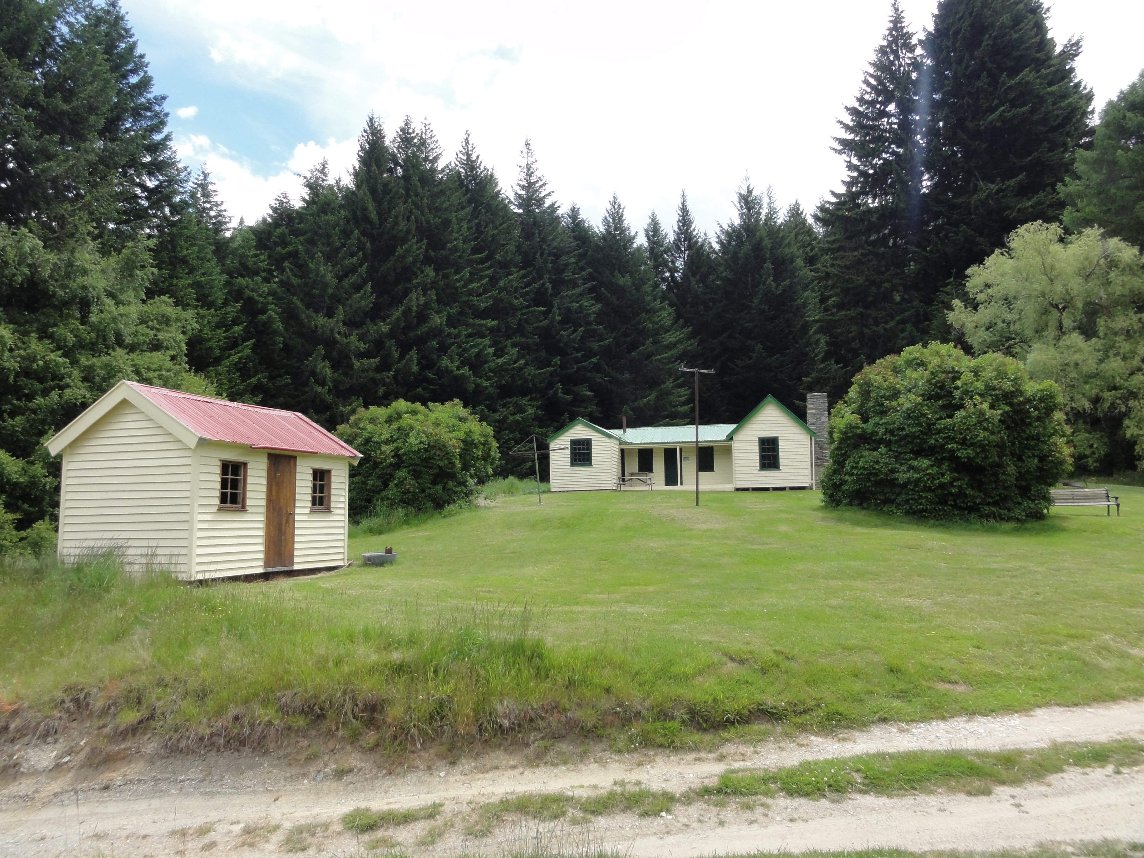 Mt. Aurum Homestead, Skippers Canyon, near Queenstown, New Zealand